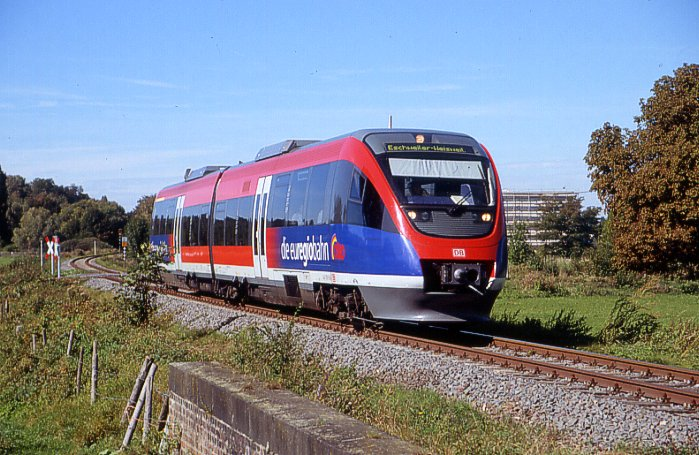 Photo by Stefan von der Ruhren with his permission per e-mail.